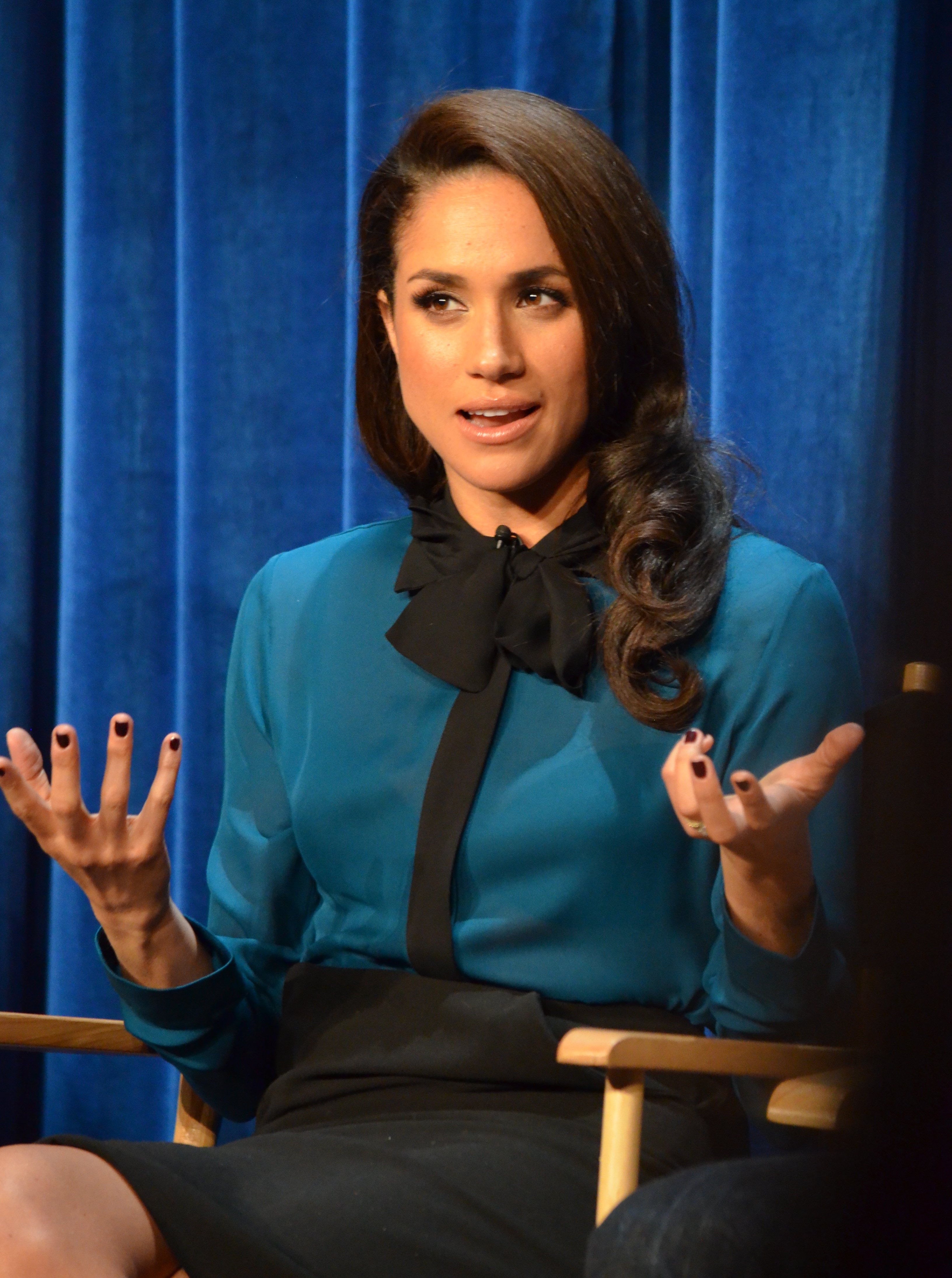 Paley Center: 'Suits' panel in 2013.